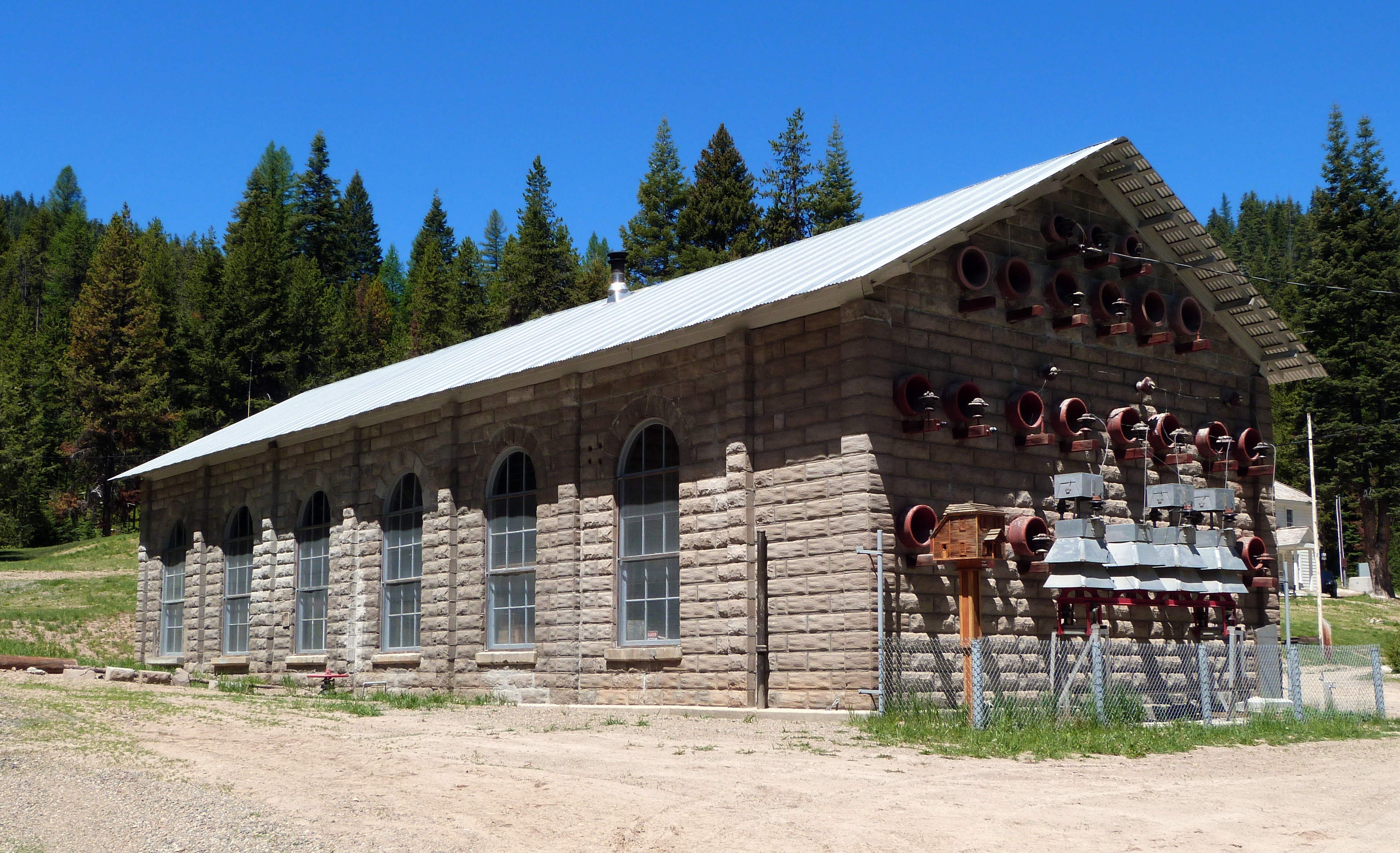 The historic Fremont Powerhouse (built 1908), located on Forest Road 10 in Umatilla National Forest near Granite, Oregon, United States, is listed on the US National Register of Historic Places.